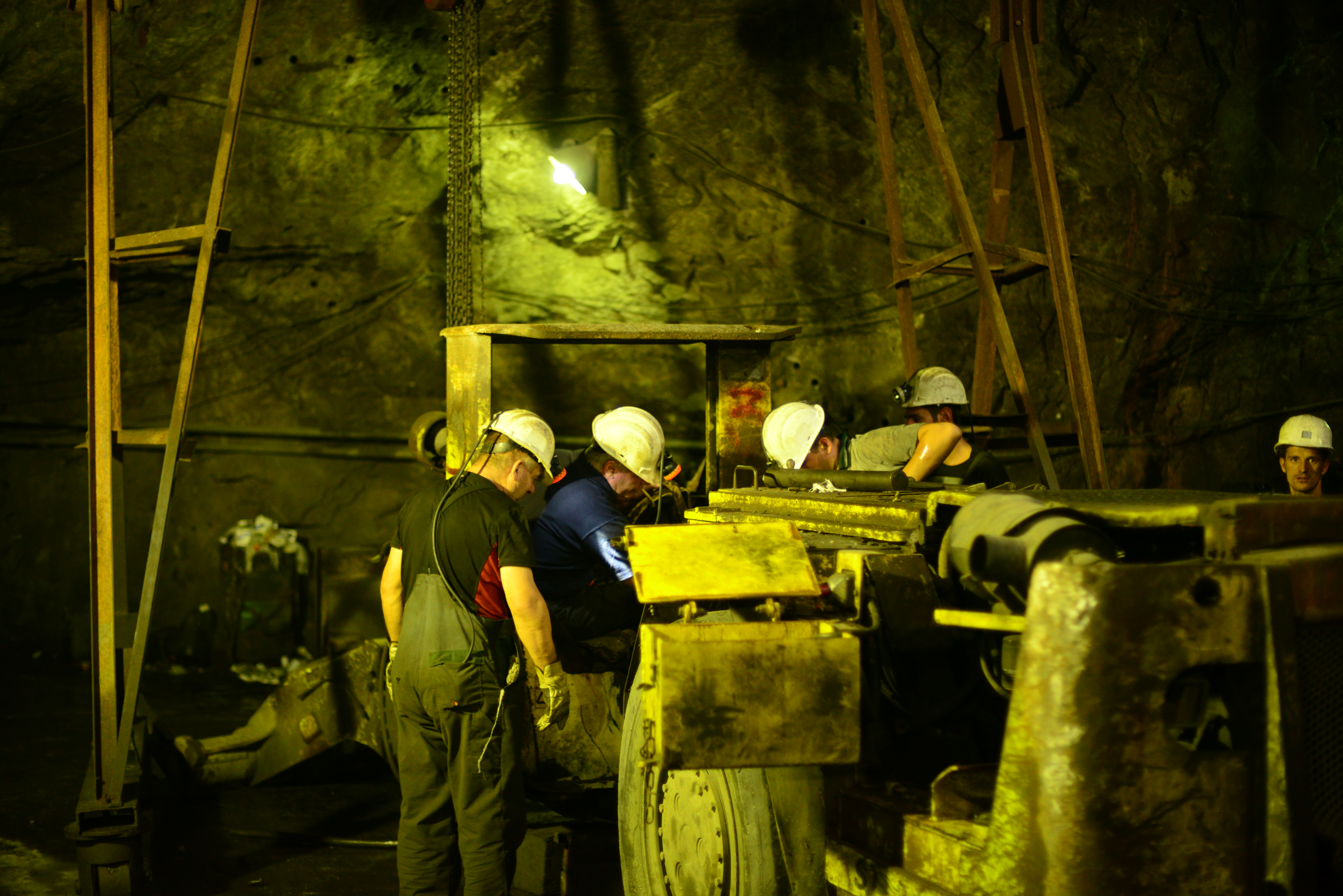 inside The Trepca Mine